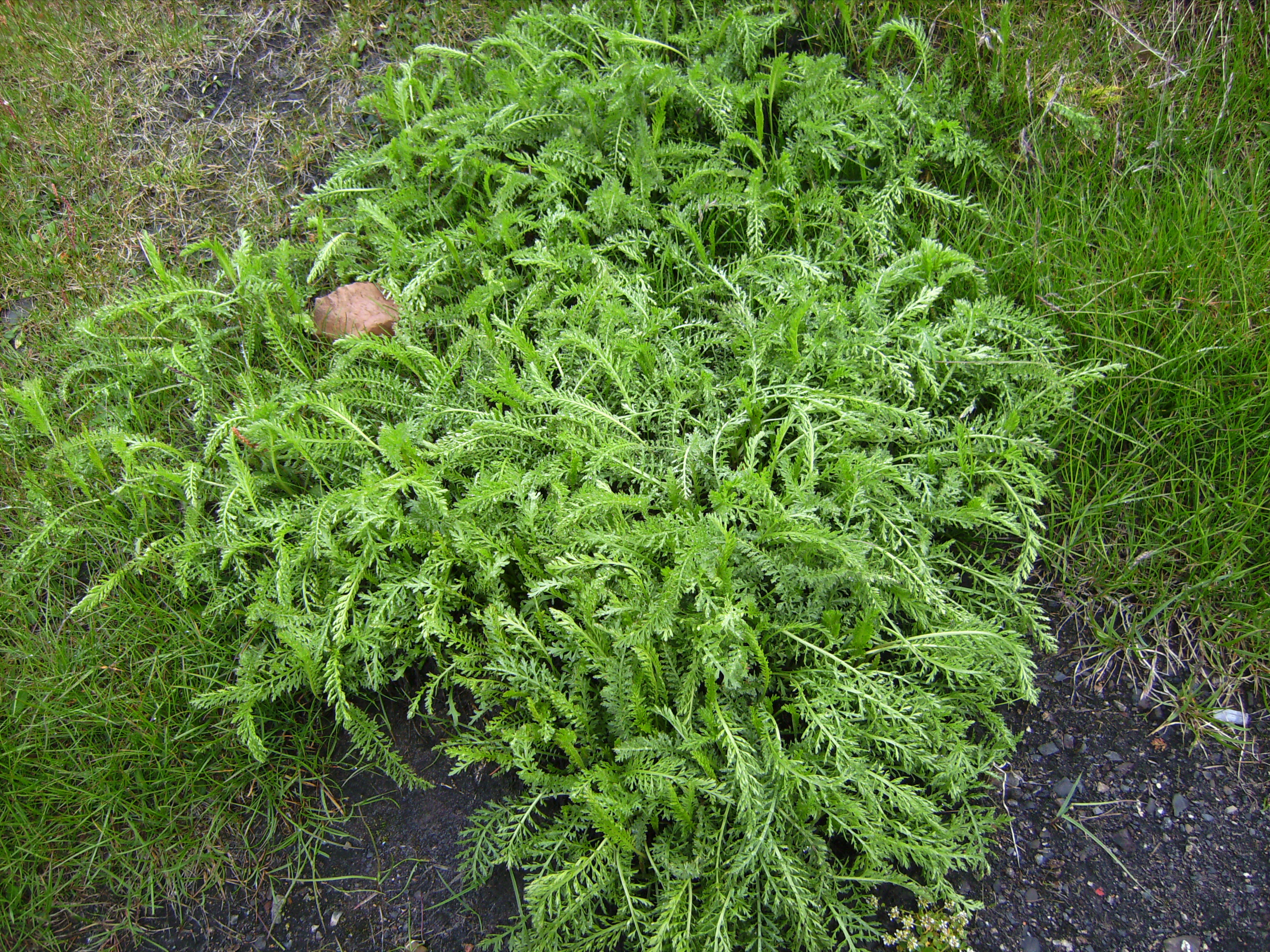 Achillea millefolium (yarrow) leaves without flowers an introduced species at Barntsburg Svalbard